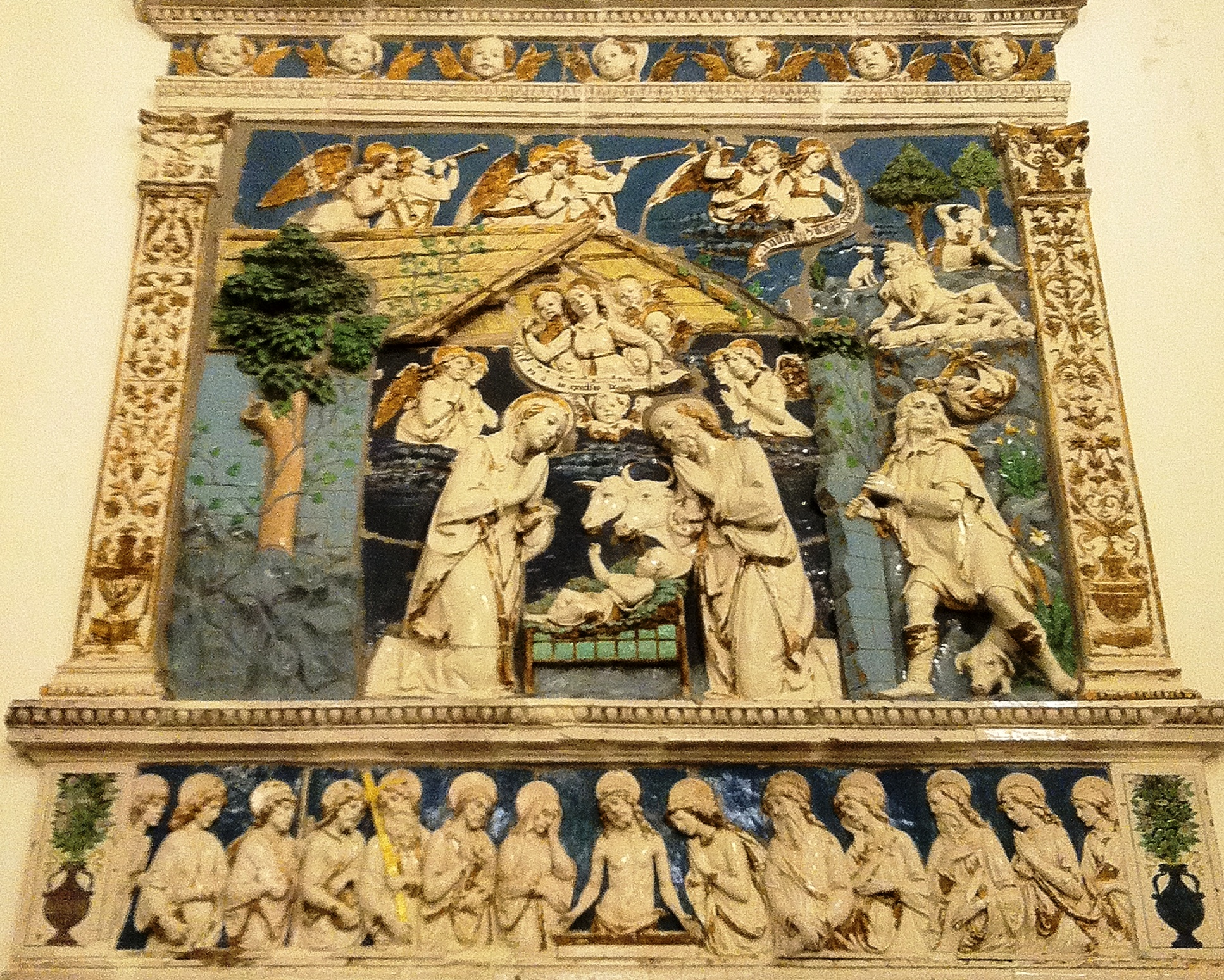 Militello. A. Della Robbia. Nativity (1487)